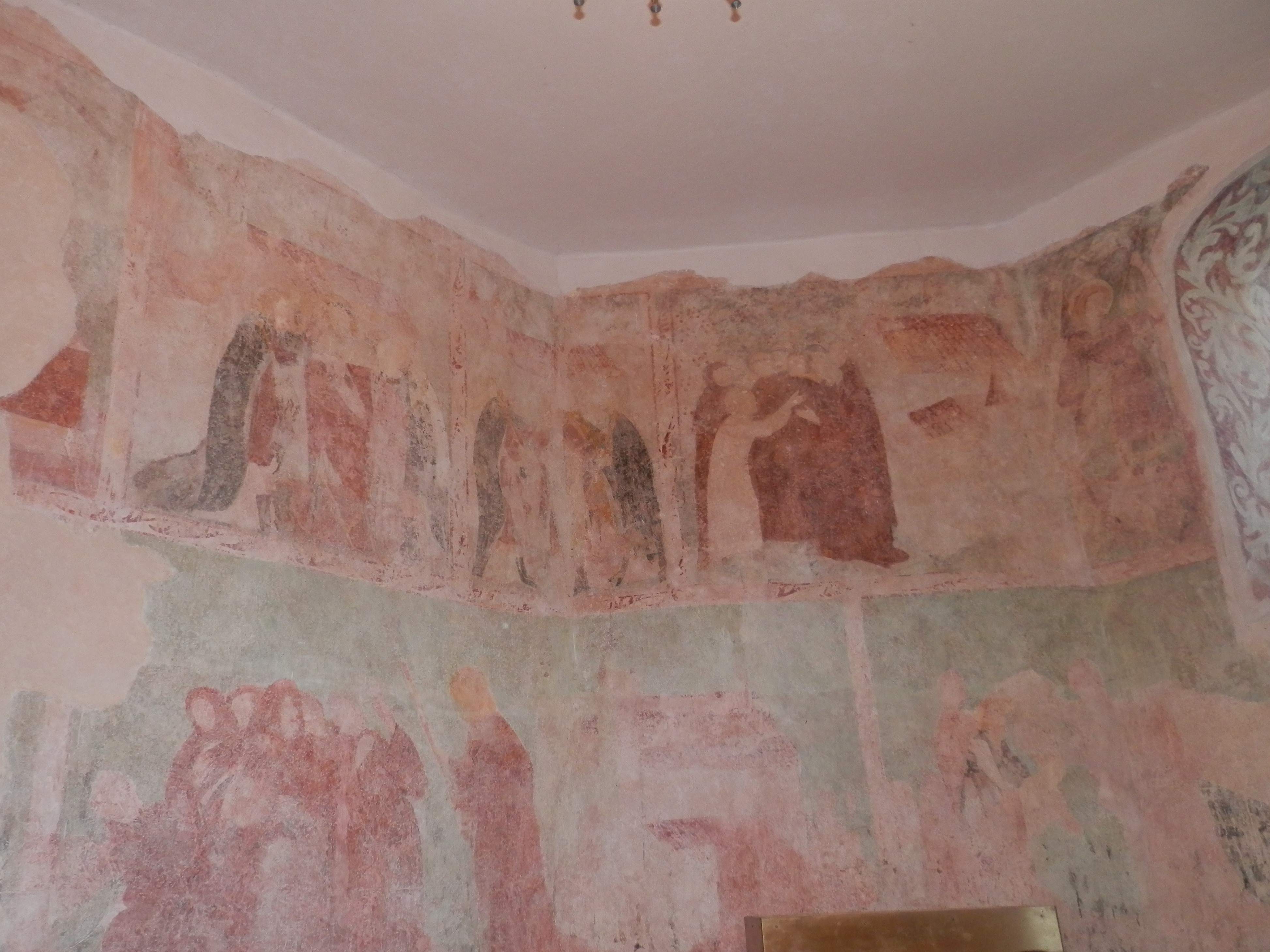 St.Prokopus chapel, Praskolesy